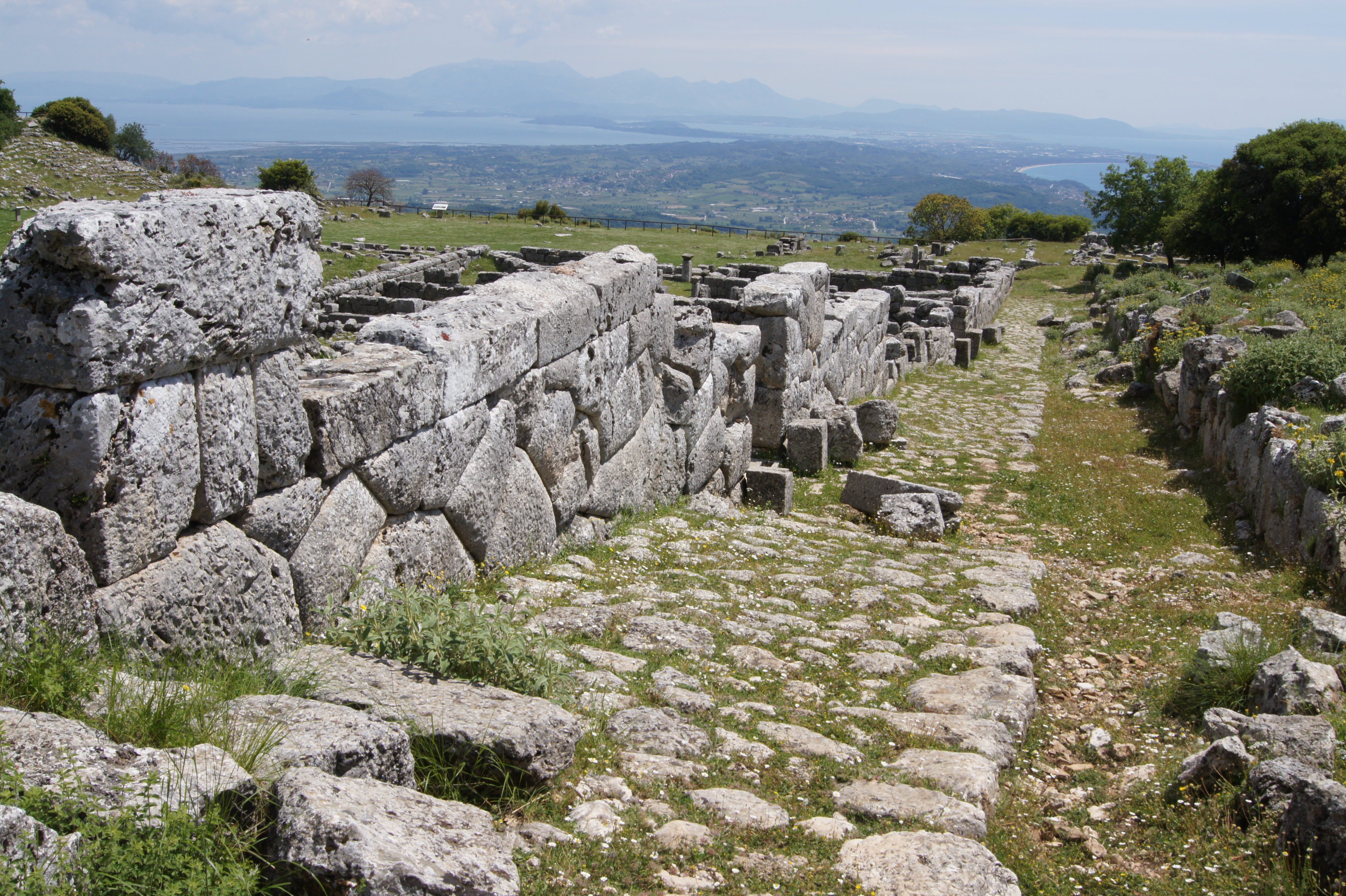 Kassope